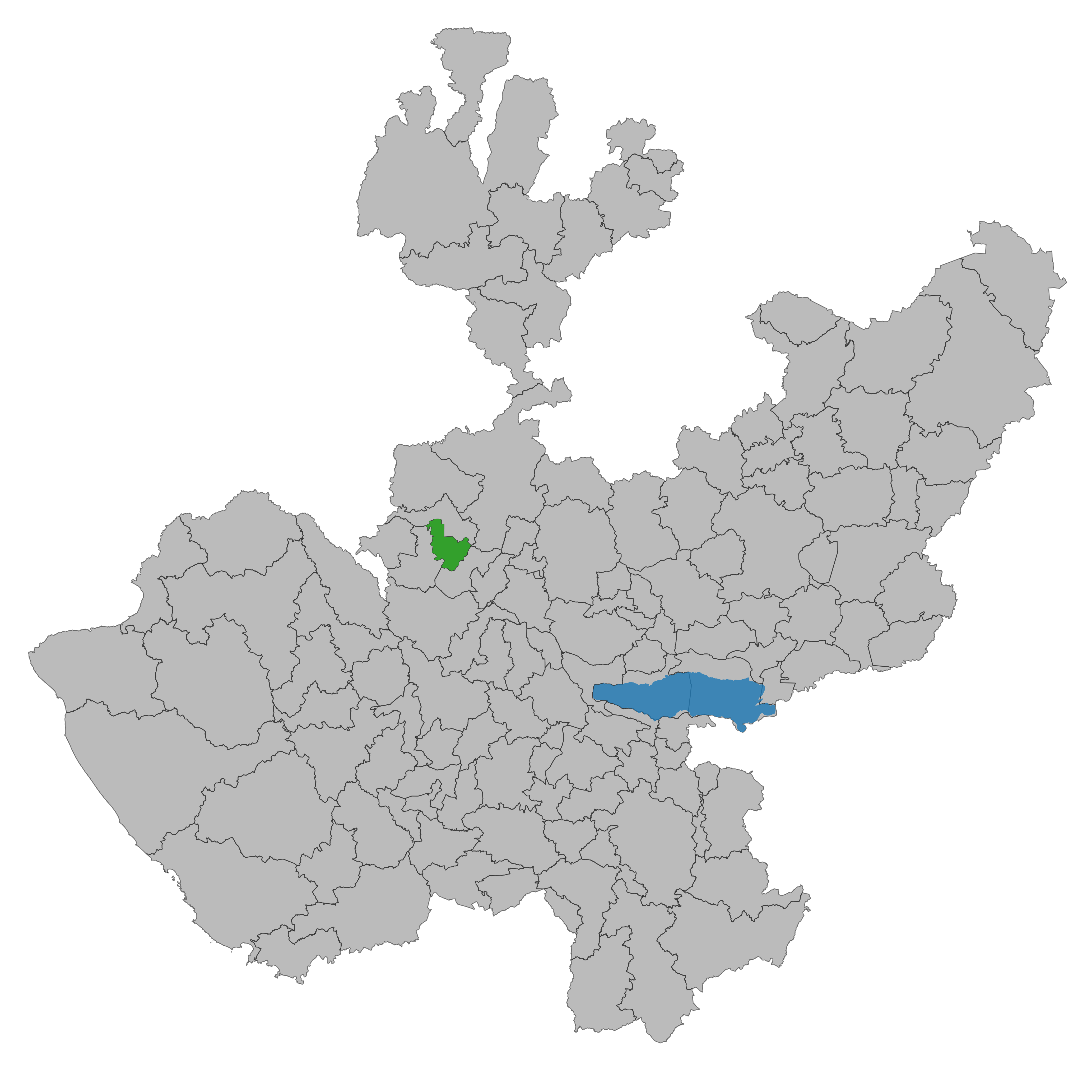 Municipality of Jalisco. Prepared with the software QGIS version 2.8.2 Wien & with information of SCINCE 2010 version 05/2013